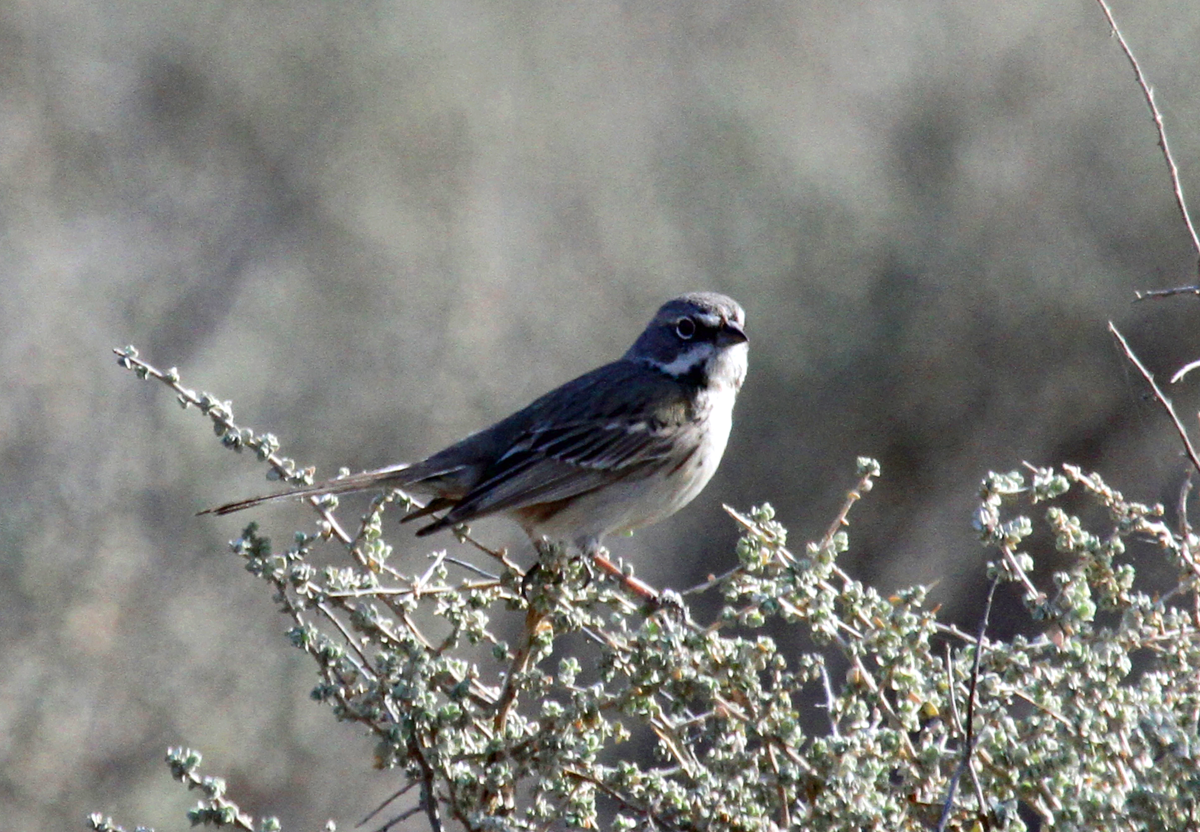 Bell's Sparrow Artemisiospiza belli, Carrizo Plain National Monument, San Luis Obispo, California